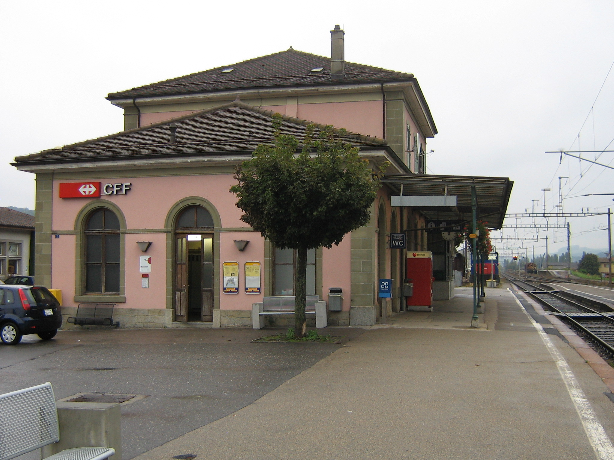 Building of the railway station of Moudon